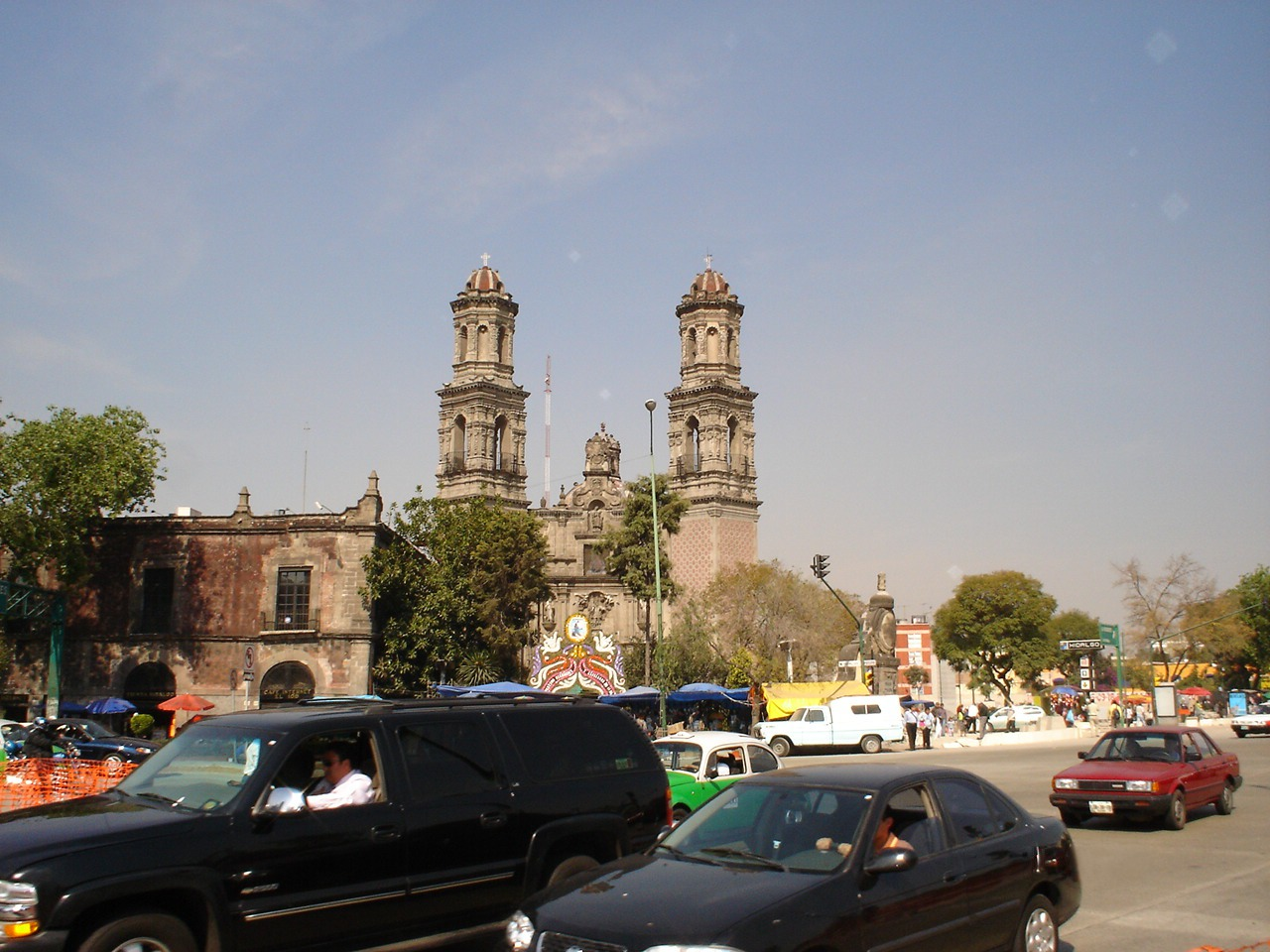 IGLIESIA DE SAN JUDAS TADEO SOBRE PASEO DE LA REFORMA, SI BIEN SAN JUDAS TADEO ES LA IMAGEN QUE SE VENERA EN ESTE TEMPLO, ESTE SANTUARIO ESTÁ DEDICADO A LA ADVOCACIÓN DE SAN HIPOLITO.